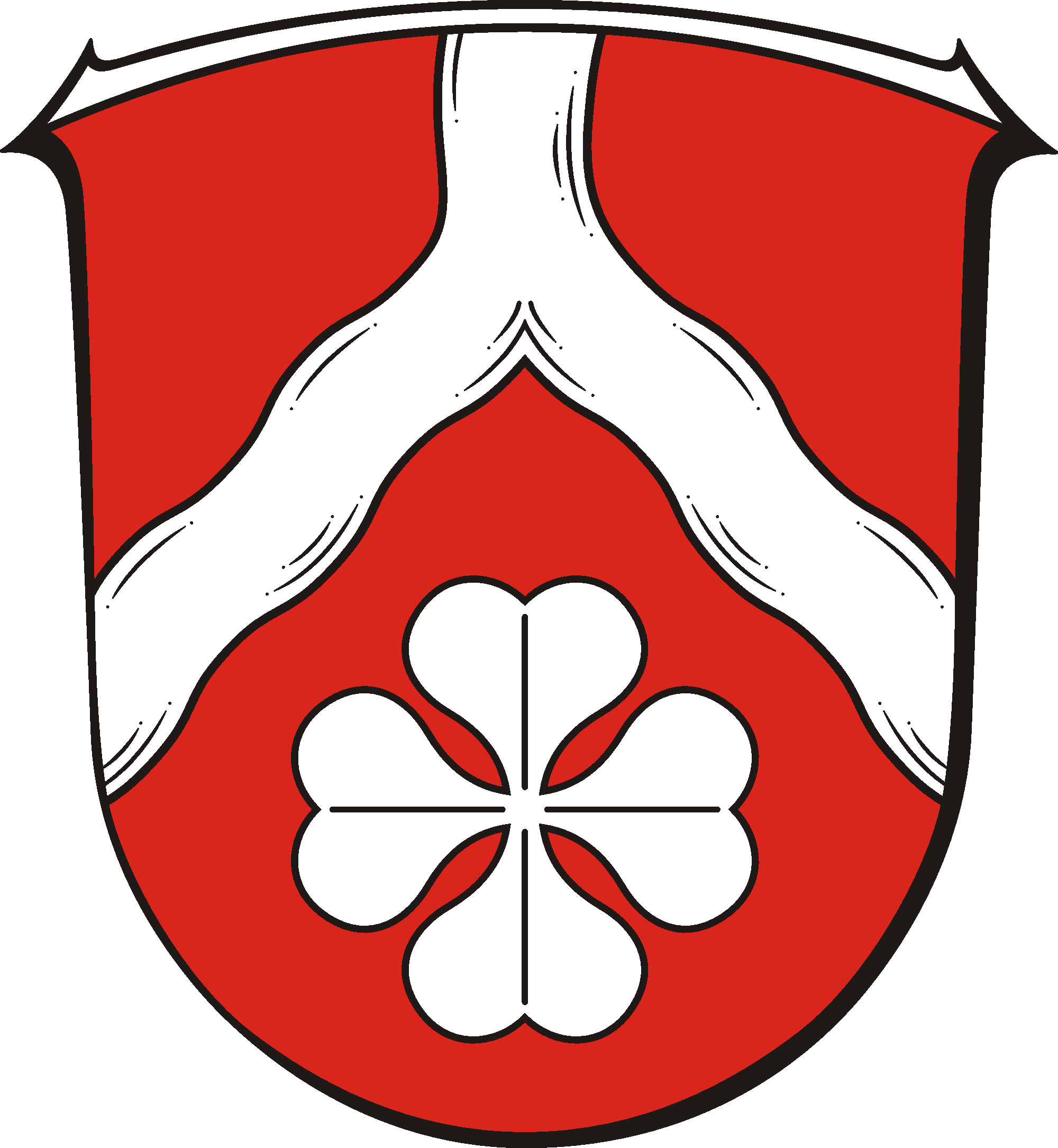 Coat of Arms of Edermünde